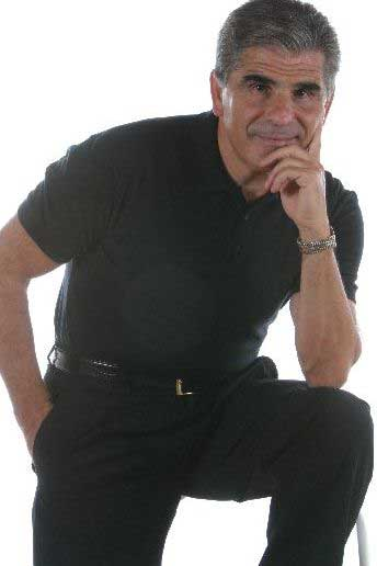 Spanish showman Pedro Ruiz.